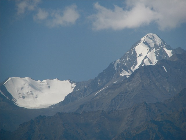 Stok Kangri peak 6135m. Ladakh, India